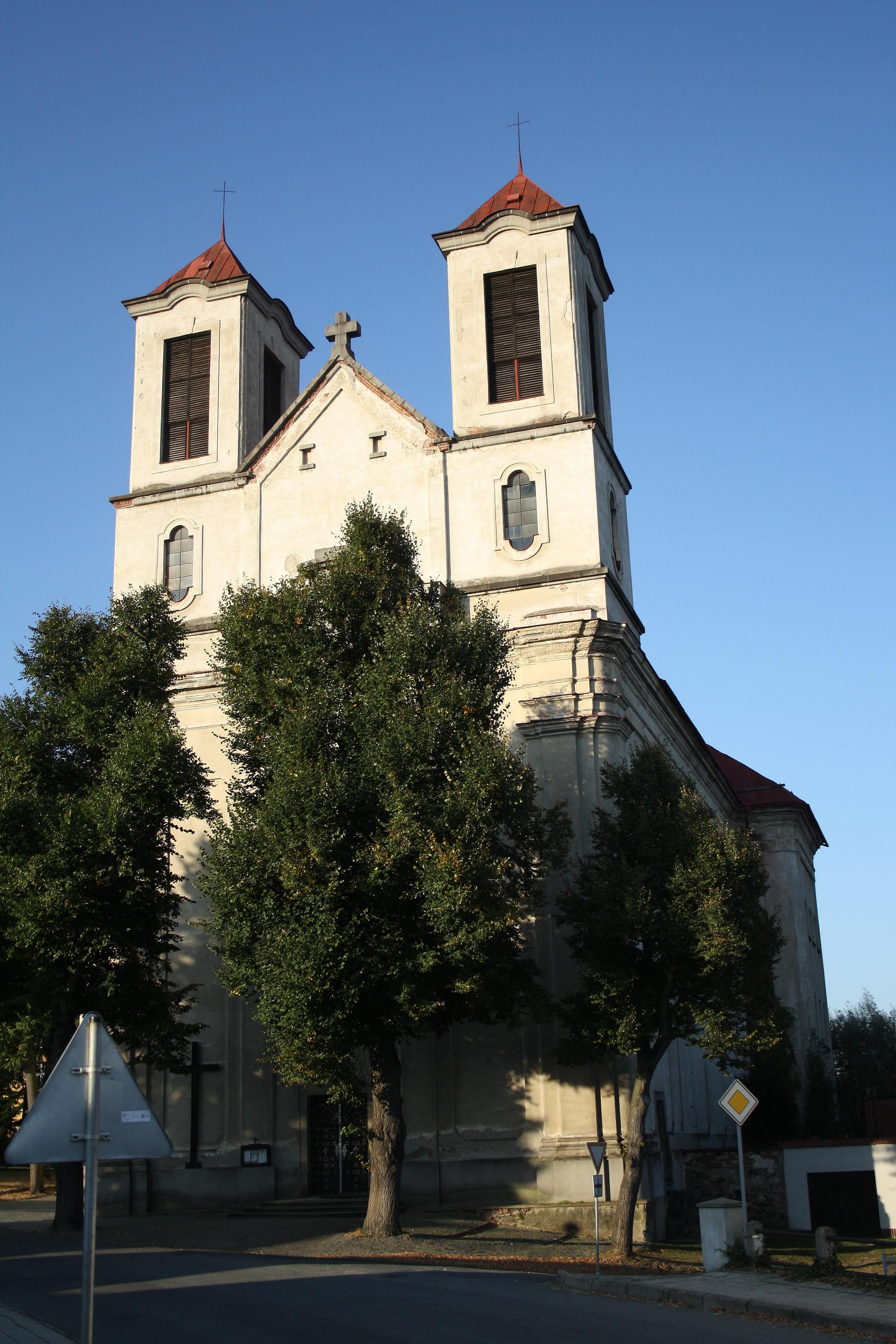 Our Lady Church in Přibyslavice, Czech Republic.